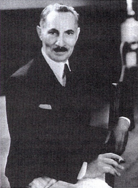 Sam Marx, called "Frenchie", the father of the Marx Brothers